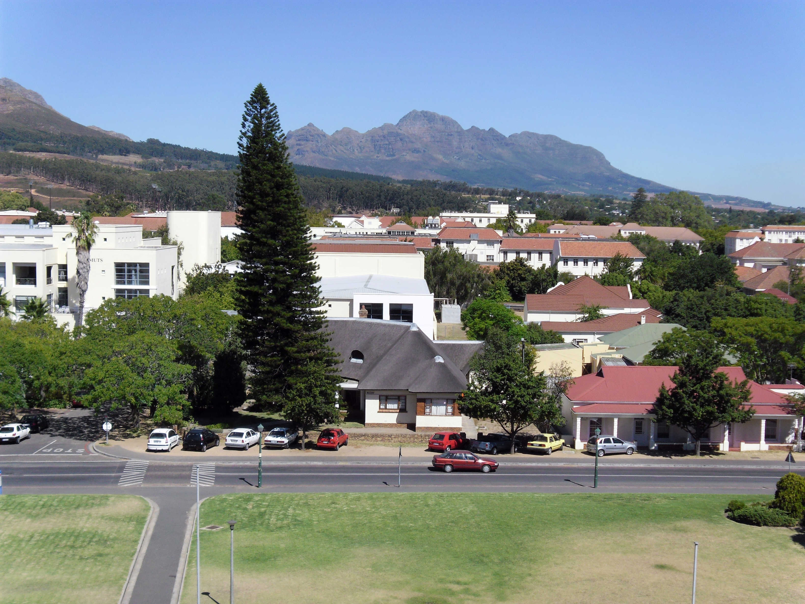 Stellenbosch University viewed from the fourth story of the general engineering building.